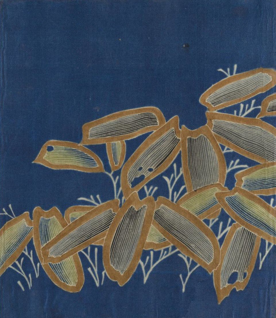 [Detail] Japanese decorated silk. In the Mary Ann Beinecke Decorative Art Collection. Sterling and Francine Clark Art Institute Library.